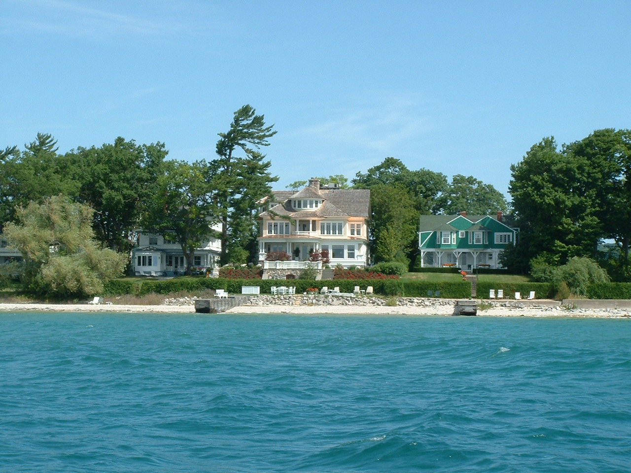 Historic homes on Harbor Point on the Little Traverse Bay in Michigan, taken July, 2005.